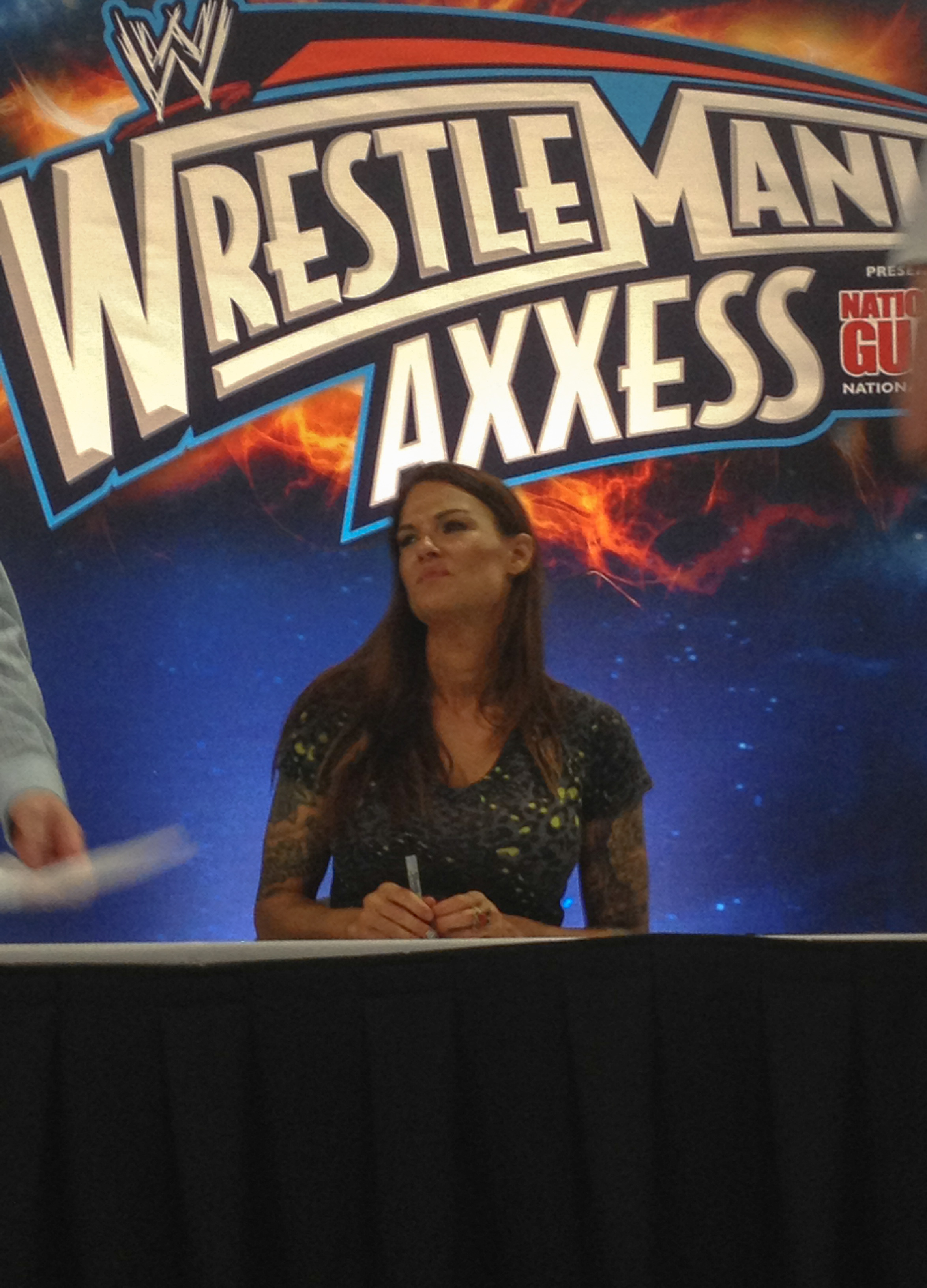 WWE Fan Axxess - Lita